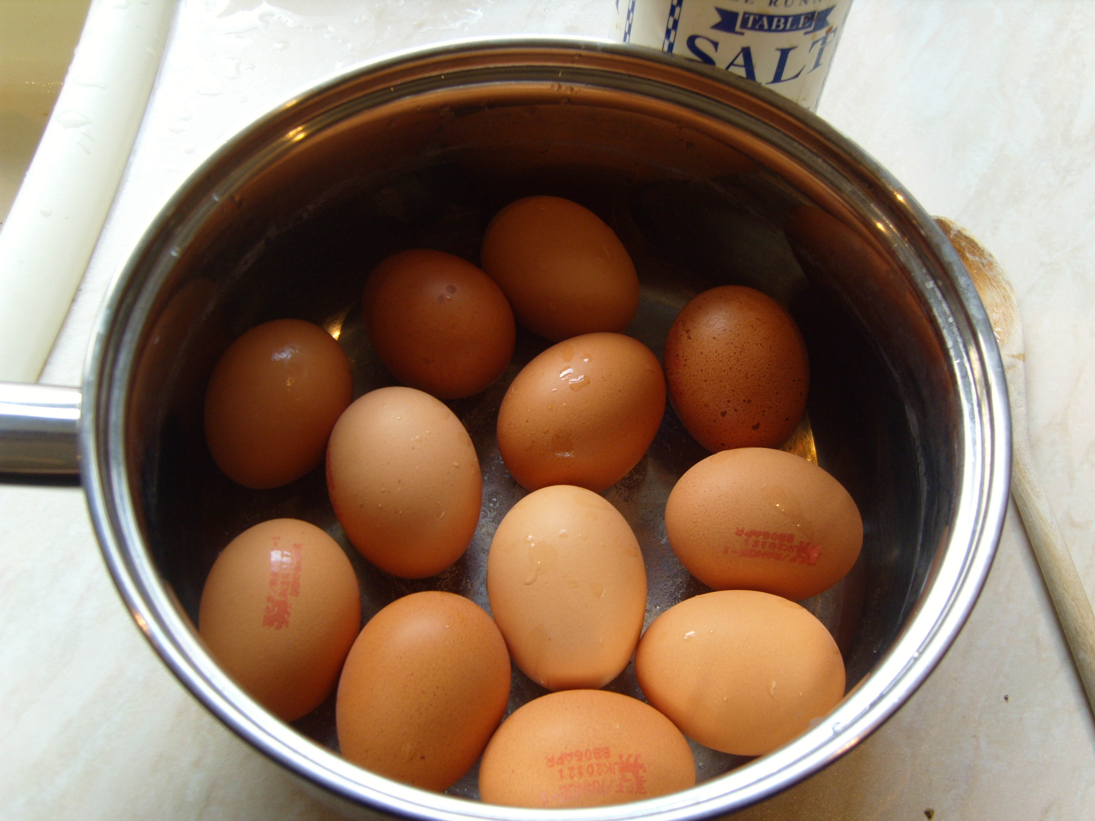 A dozen boiled eggs with lion marks visible in a saucepan.